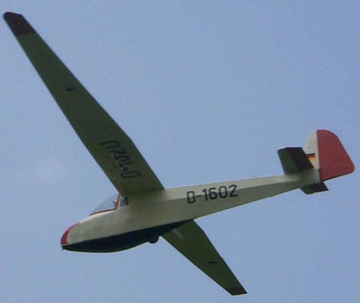 Scheibe L-Spatz 55